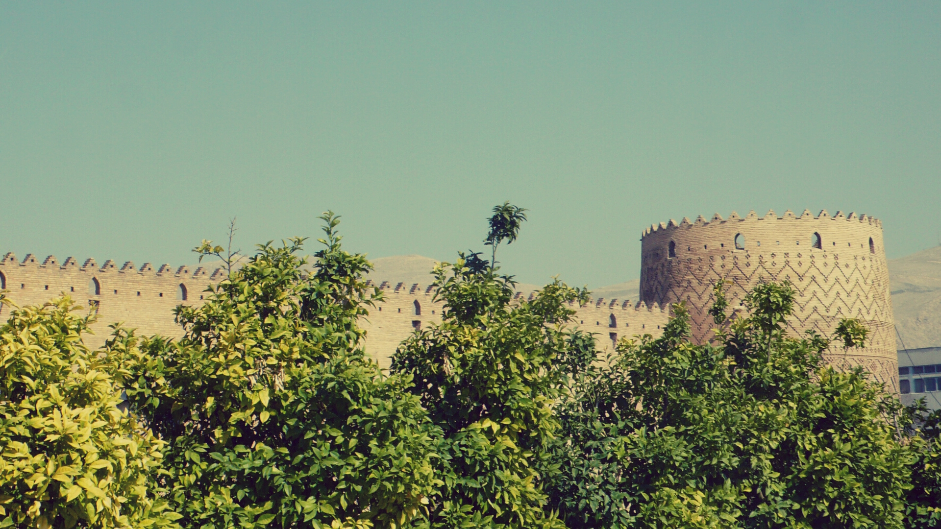 Arg of karim khan, outside view